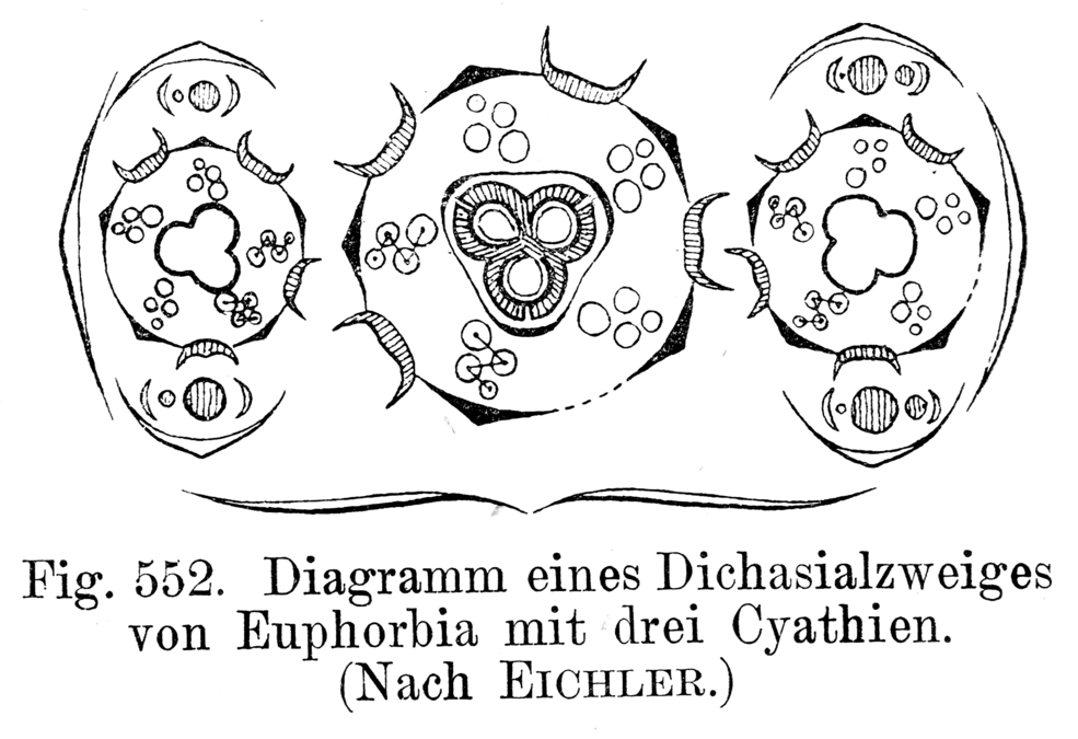 Diagram of a flower of Euphorbia (Euphorbiaceae)